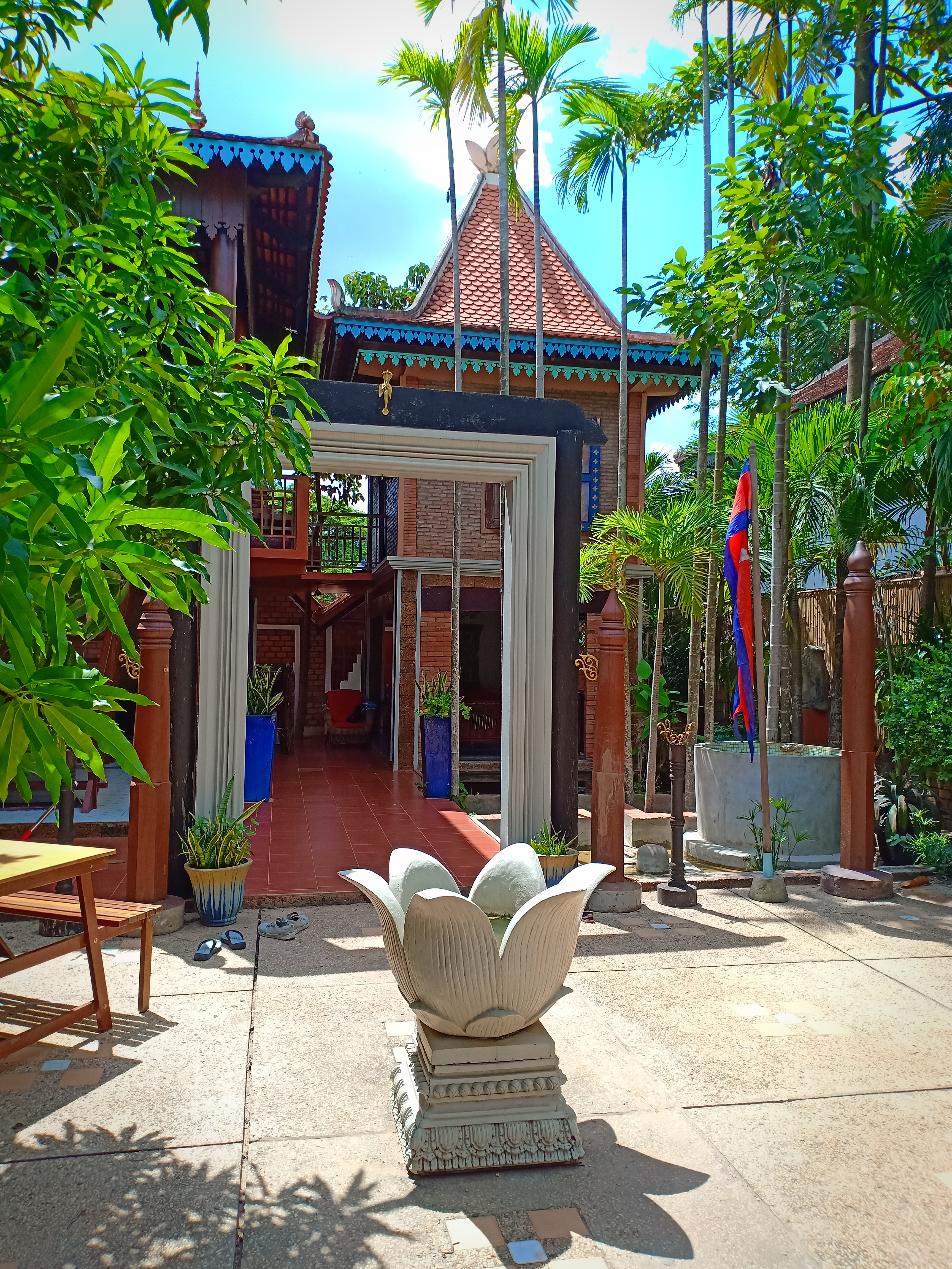 LEANG Seckon house in Siem Reap where Sombai Cambodian Liqueur is produced